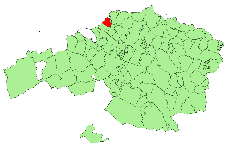 Barrika municipality in the province of Biscay